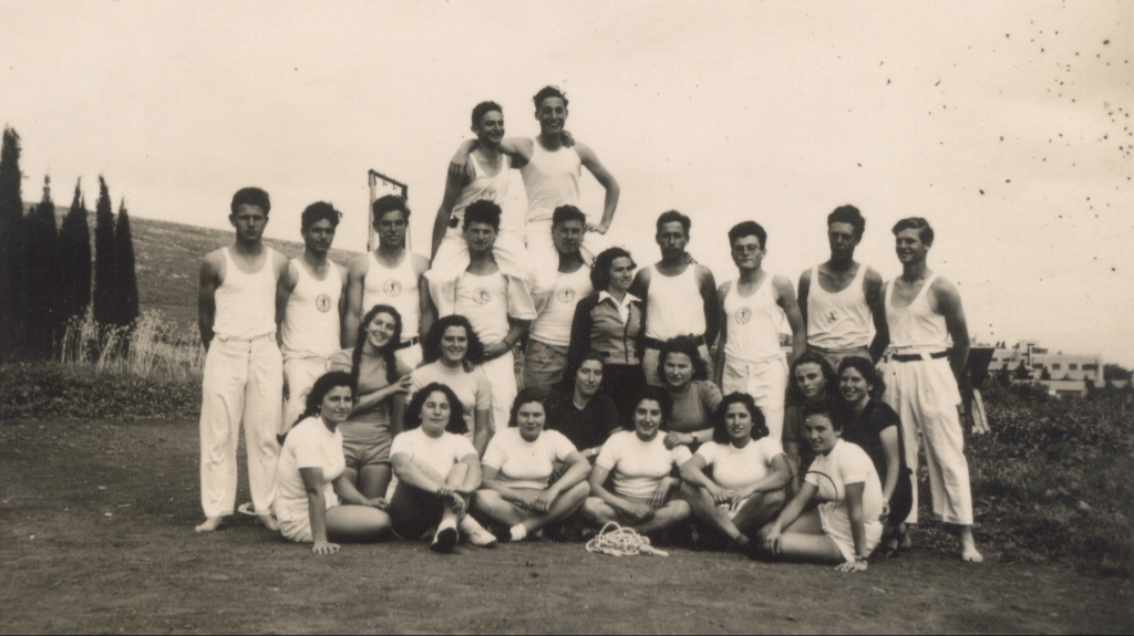 Education in Israel